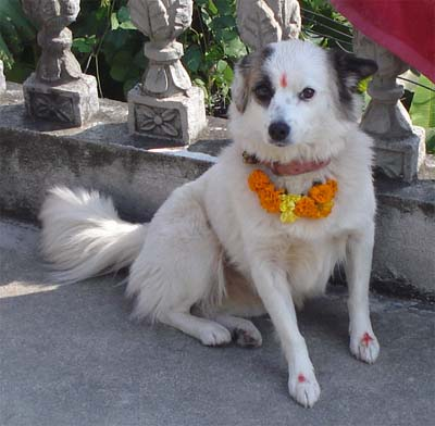 A dog being worshiped in Kukur Tihar, A Hindu festival to mark the significance of a dog in one's life and after life.